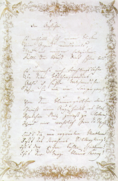 Autograph with Lyrics of Adelheid von Carolath-Beuthen